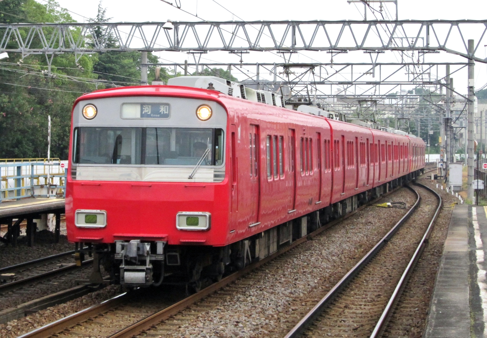 Meitetsu 6500 series and 6800 series. Limited Express bound for Kōwa.